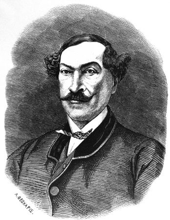 Spyridon Zampelios (1815-1881): Greek historian